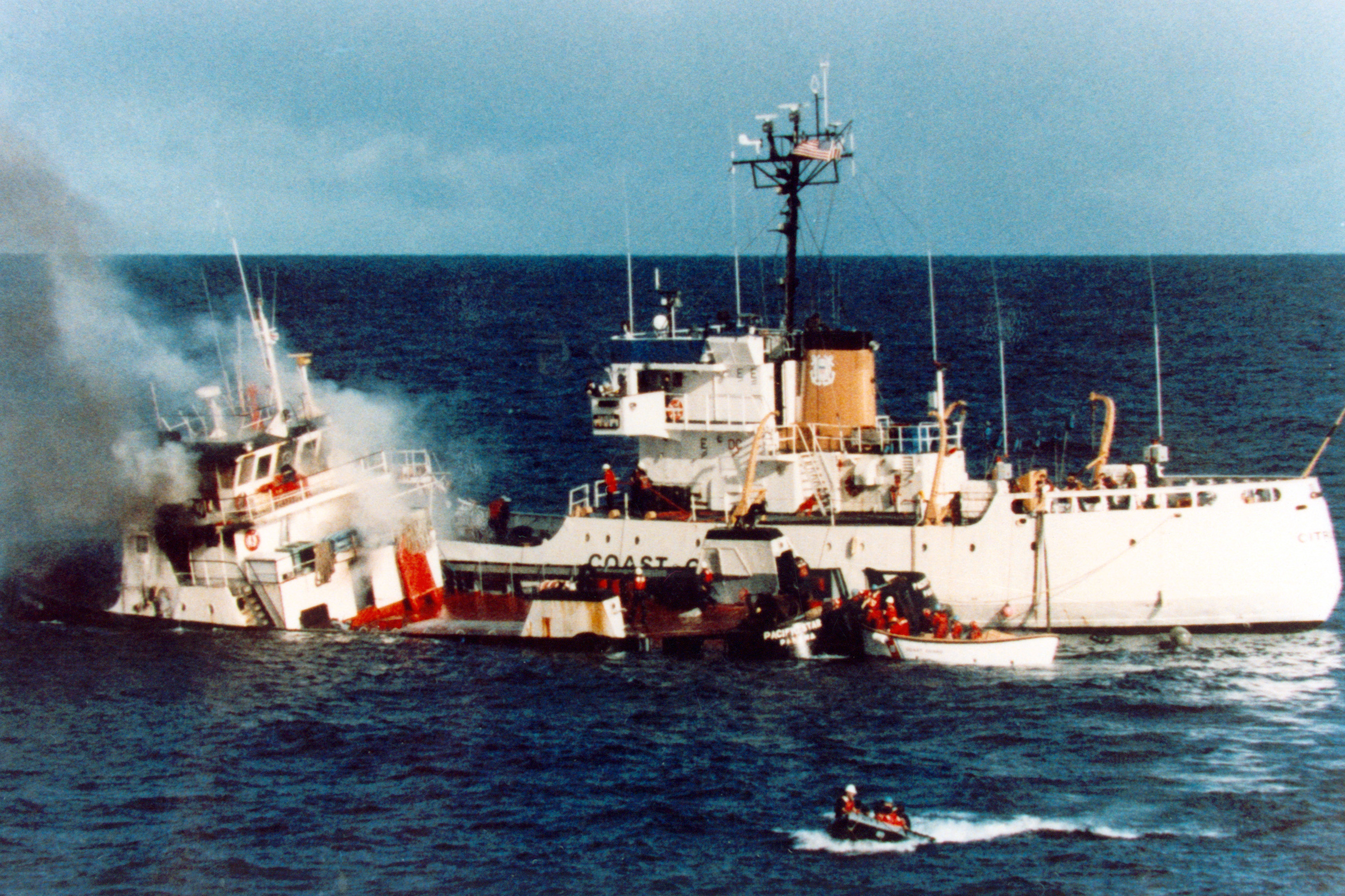 USCG Citrus-MV Pacific Star Aflame after collision-1JAN85 PD-USGov-DHS-CG